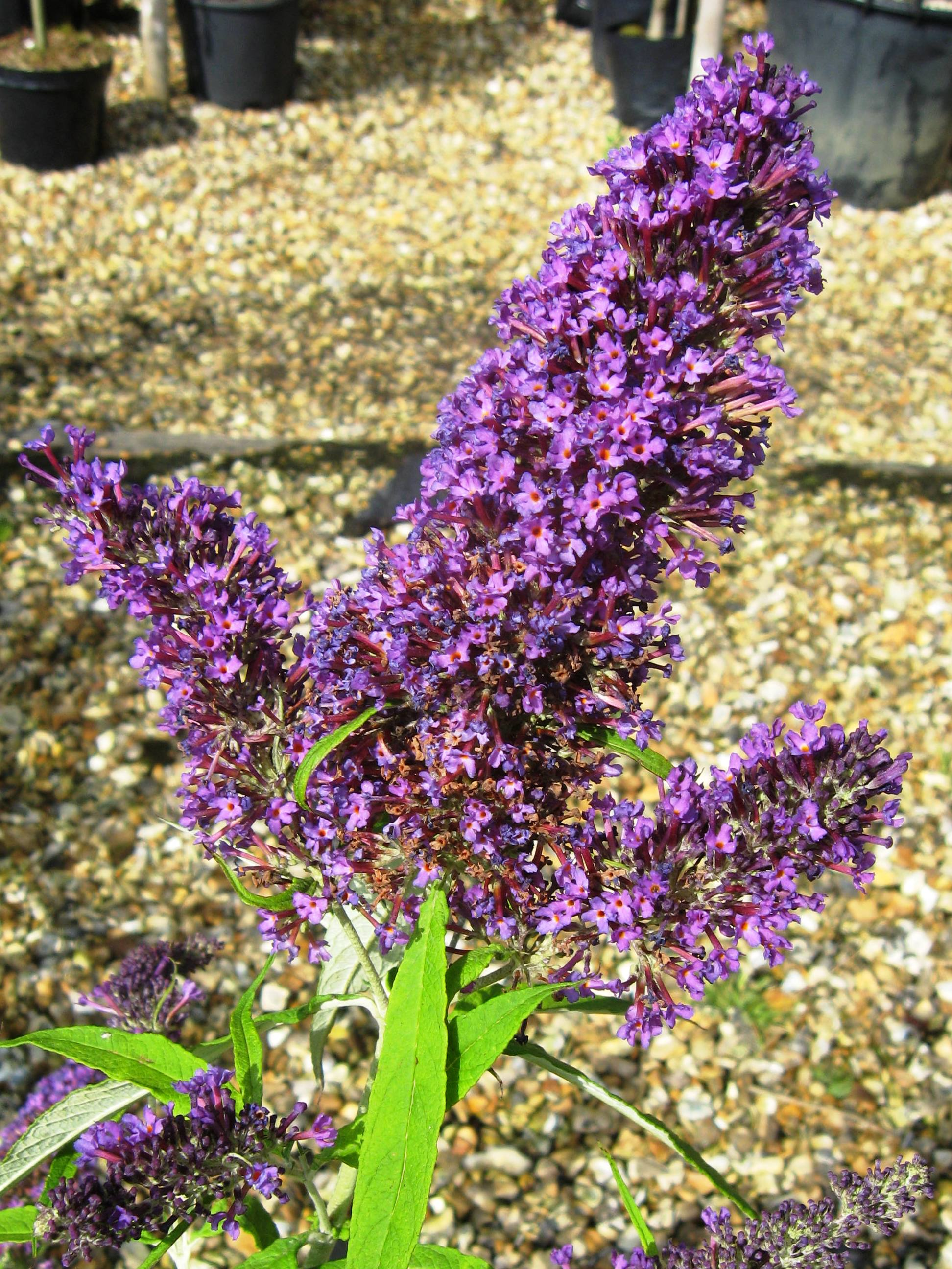 Photo of Buddleja davidii 'Pyrkeep' (selling name = Purple Emperor) taken at Longstock Park nursery, UK, national collection holders.